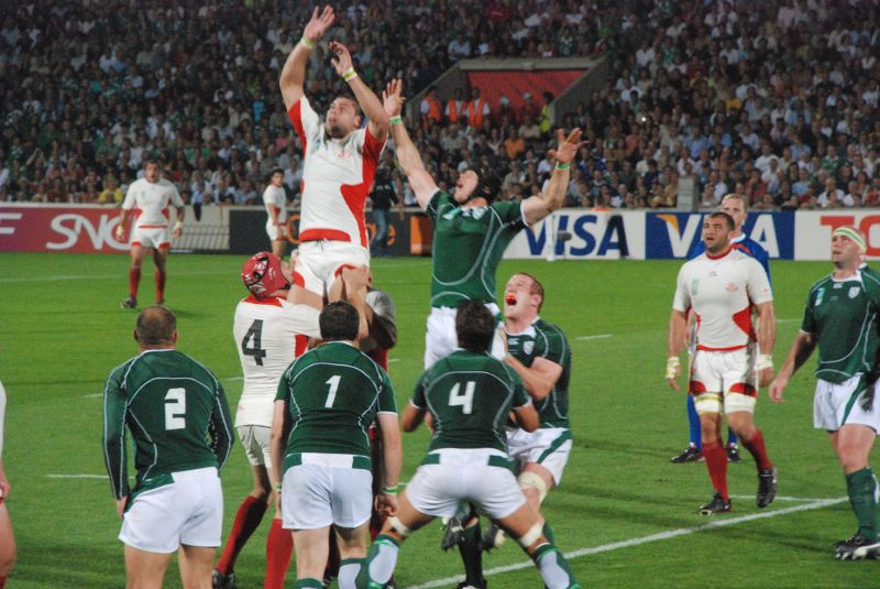 Ireland vs Georgia, Rugby World Cup 2007. Stade Chaban Delmas, Bordeaux, France. Line-out for Georgia